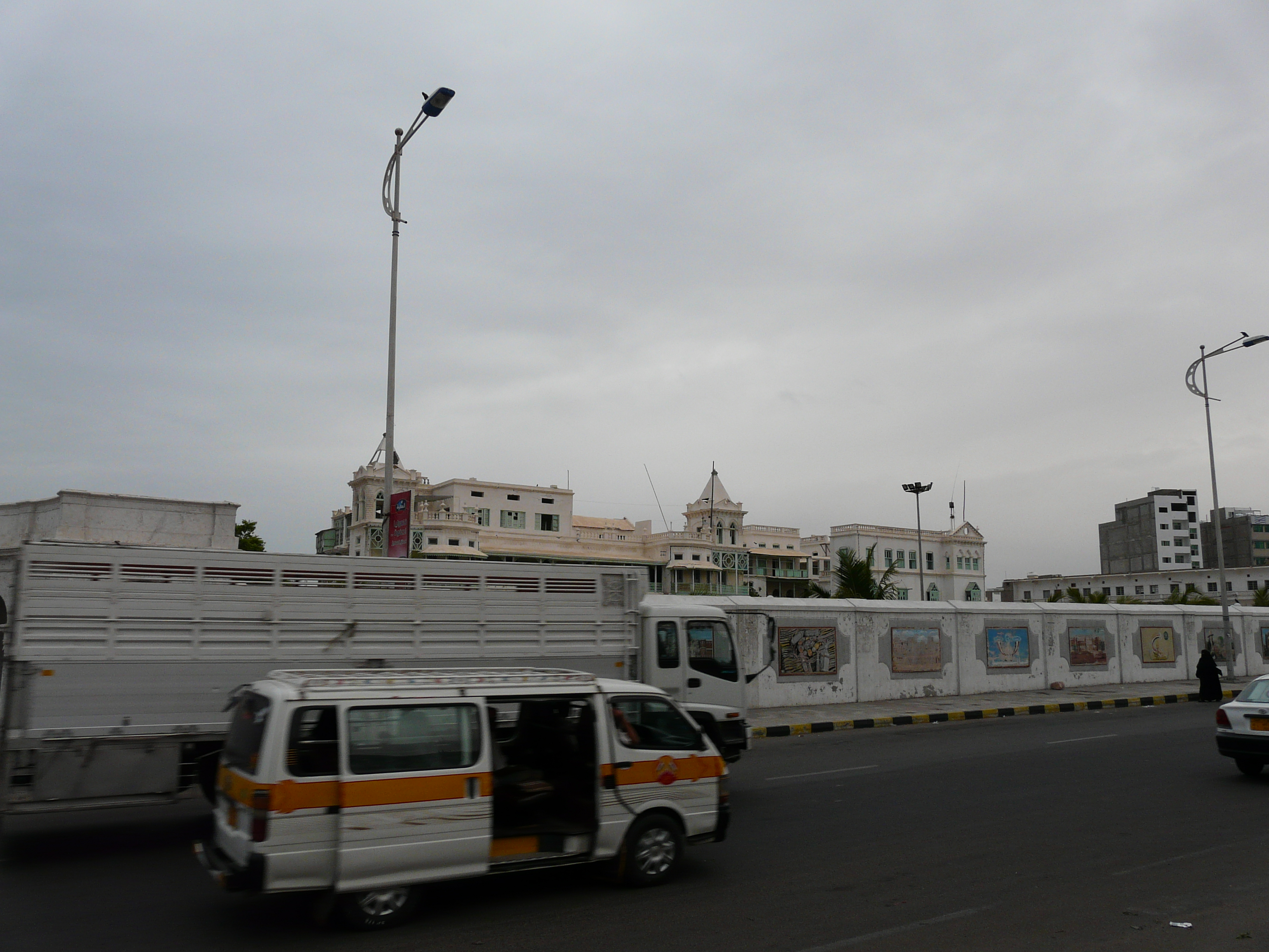 Quaiti Palace in Al Mukalla. Yemen